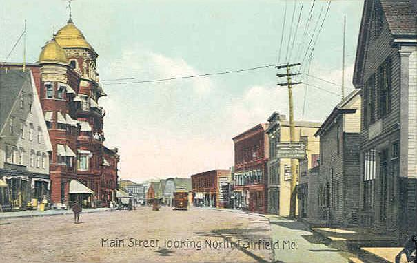 Main Street, looking north, Fairfield, Maine. At left is The Gerald Hotel, designed by noted Maine architect William Robinson Miller (1866-1929), and erected in 1899-1900 for Amos F. Gerald, builder of the first electric trolley system in Maine.